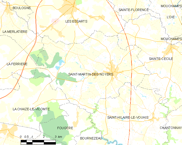 Map of French municipality Saint-Martin-des-Noyers